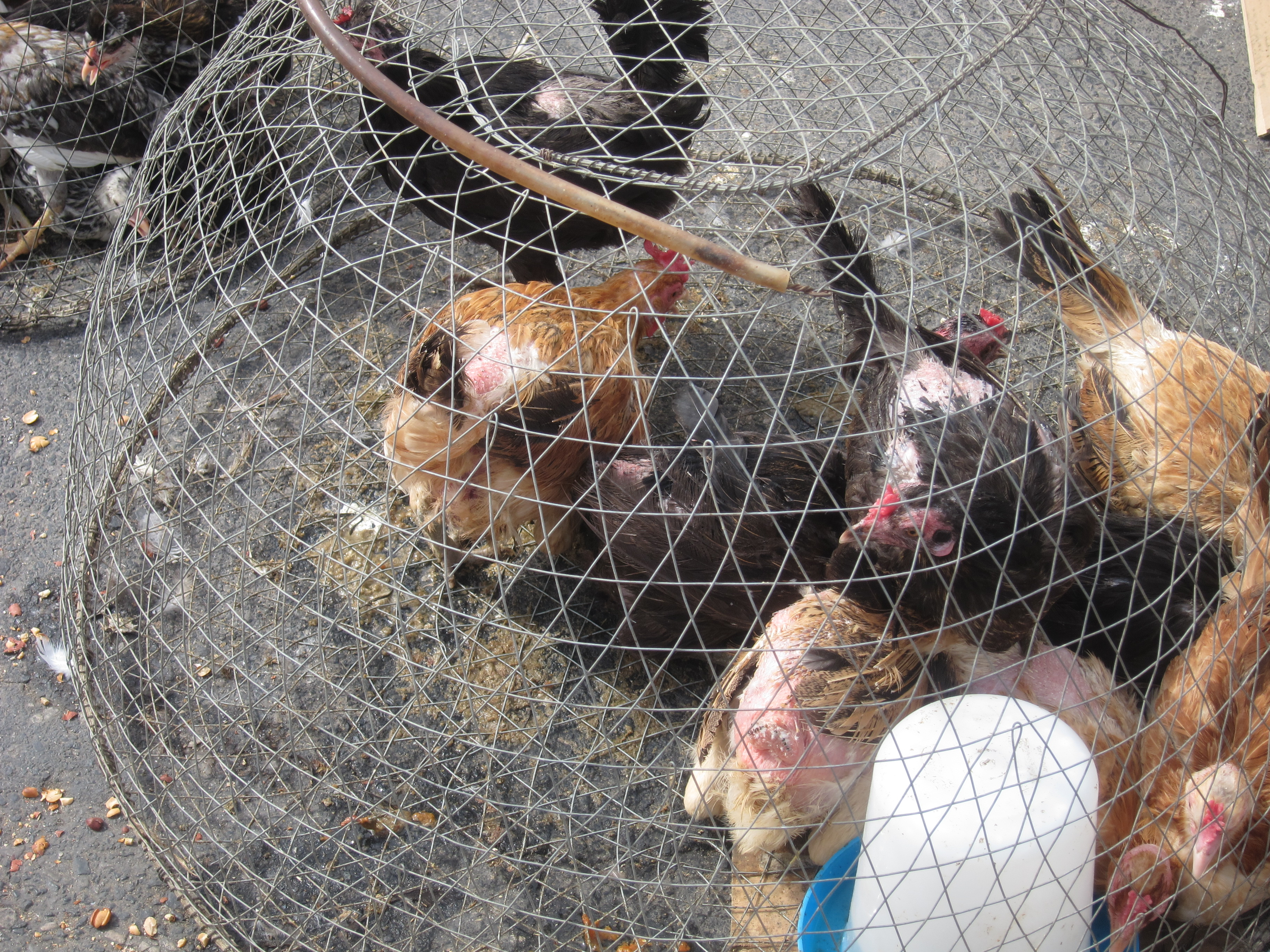 Friday Market in Dammam, Saudi Arabia വെള്ളിയാഴ്ച് വിപണി, ദമാം, സൗദി അറേബ്യ വെള്ളിയാഴ്ച് രാവിലെ മാത്രം ദമാമിൽ പ്രവർത്തിക്കുന്ന പക്ഷി-മൃഗ വിപണിയുടെ ദൃശ്യങ്ങൾ... മുയൽ, പട്ടി, പൂച്ച, നാടൻ കോഴികളും ബ്രൊയിലറും, തത്ത, പ്രാവ്, ലൗവ് ബേർഡ്സ്, കാട, ഉടുമ്പ്, എലി തുടങ്ങി എല്ലാം വിപണിയിലുണ്ടാകും...